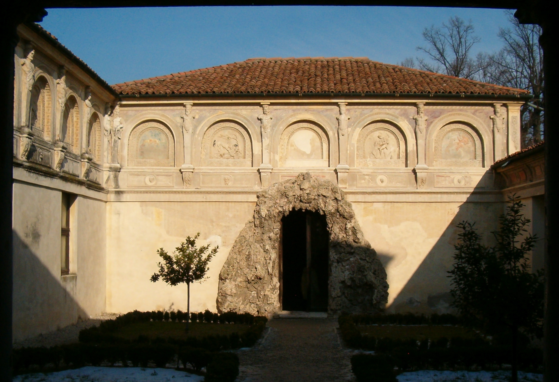 Palazzo Te in Mantova, Italy: the secret garden - Photo taken by Marcok of wikipedia on January 7, 2006